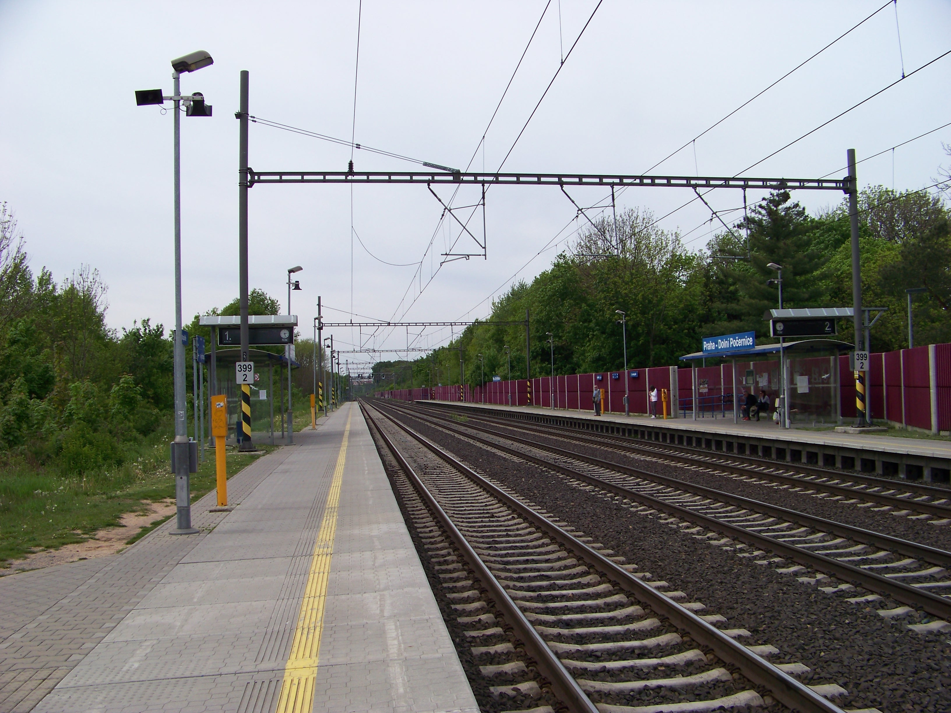 Prague-Dolní Počernice, Czech Republic. Train stop Praha-Dolní Počernice.